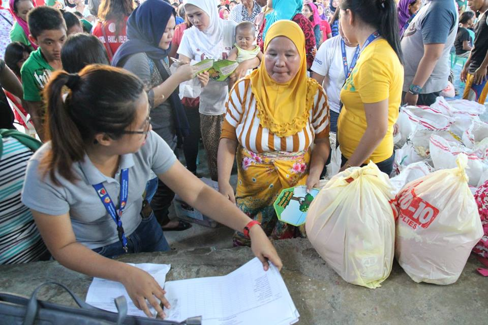 879 Evacuees from Marawi City and nearby towns of Lanao del Sur are now housed at Maria Cristina Evacuation Center, Maria Cristina, Iligan City following the clashes between government troops and Maute group which erupted last May 23.